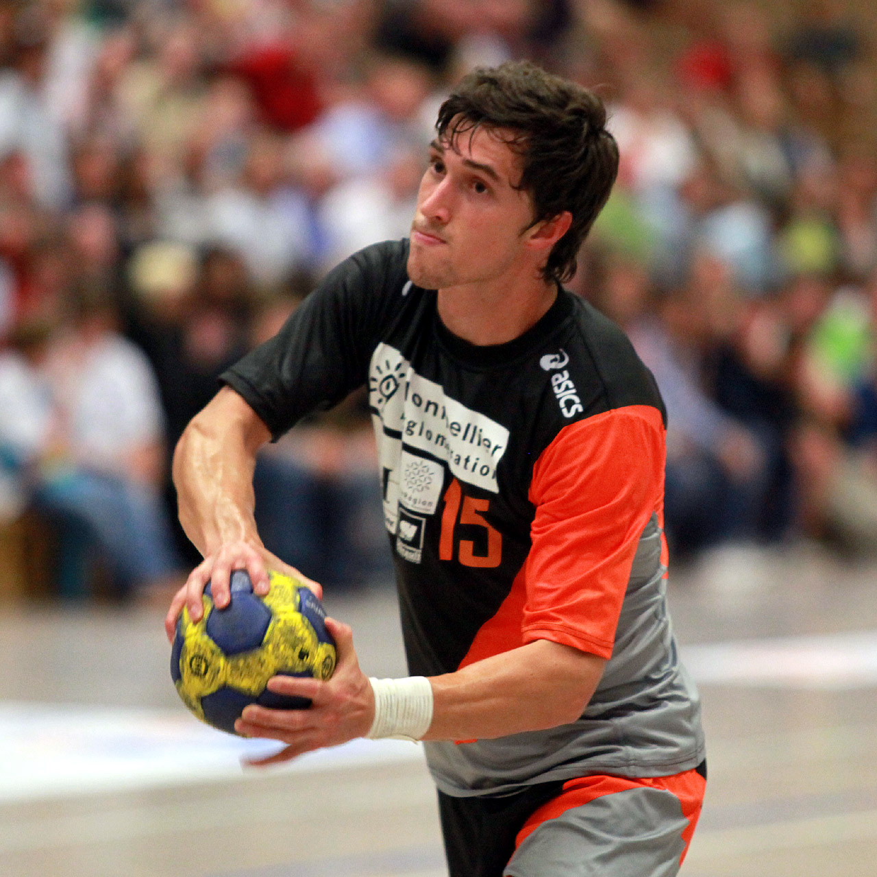 Samuel Honrubia, French handball player, on August 14th, 2010 in Ehingen (Germany), during the Schlecker Cup 2010.